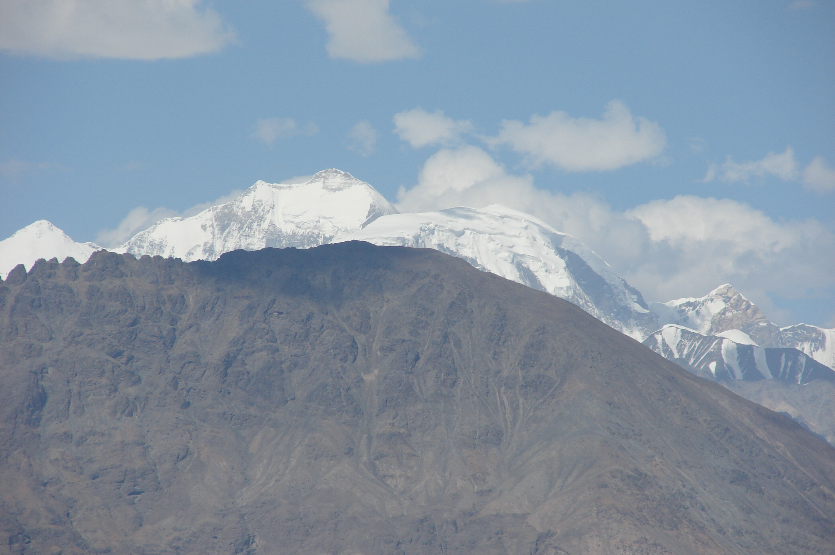 Saser Kangri I, seen from above Wachan (S of Hunder), from about 50 km distance